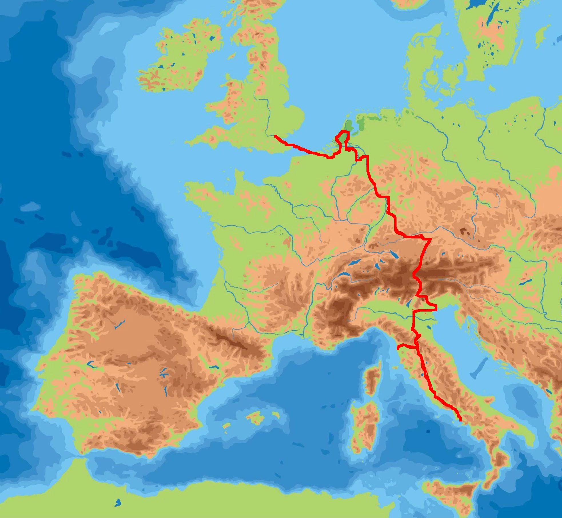 Map of grand tour taken by William Beckford in 1780, from Londen by boat to Ghent, and again by boat through Holland and Germany down the Rhine to Mannheim. Then he set off by coach for Ulm, Augsburg and Munchen, before crossing the border to Innsbruck, Austria. From there he went by horseback over the Brenner pass into Italy. From Trento he went to Bassano del Grappa and Treviso on to Venice. From Venice his itinerary was Vicenza, Verona, Mantua, Reggio, Bologna, Florence (where he took a side trip to Pistoia, Lucca, Pisa and Livorno), Siena, Radicofani, Lago di Bolsena, Viterbo and Lago di Vico, and Rome. After a stay in Rome he went on via Vellitri, Terracina, and Capua, to Naples, where he visited Capri, Vesuvius and Ischia.